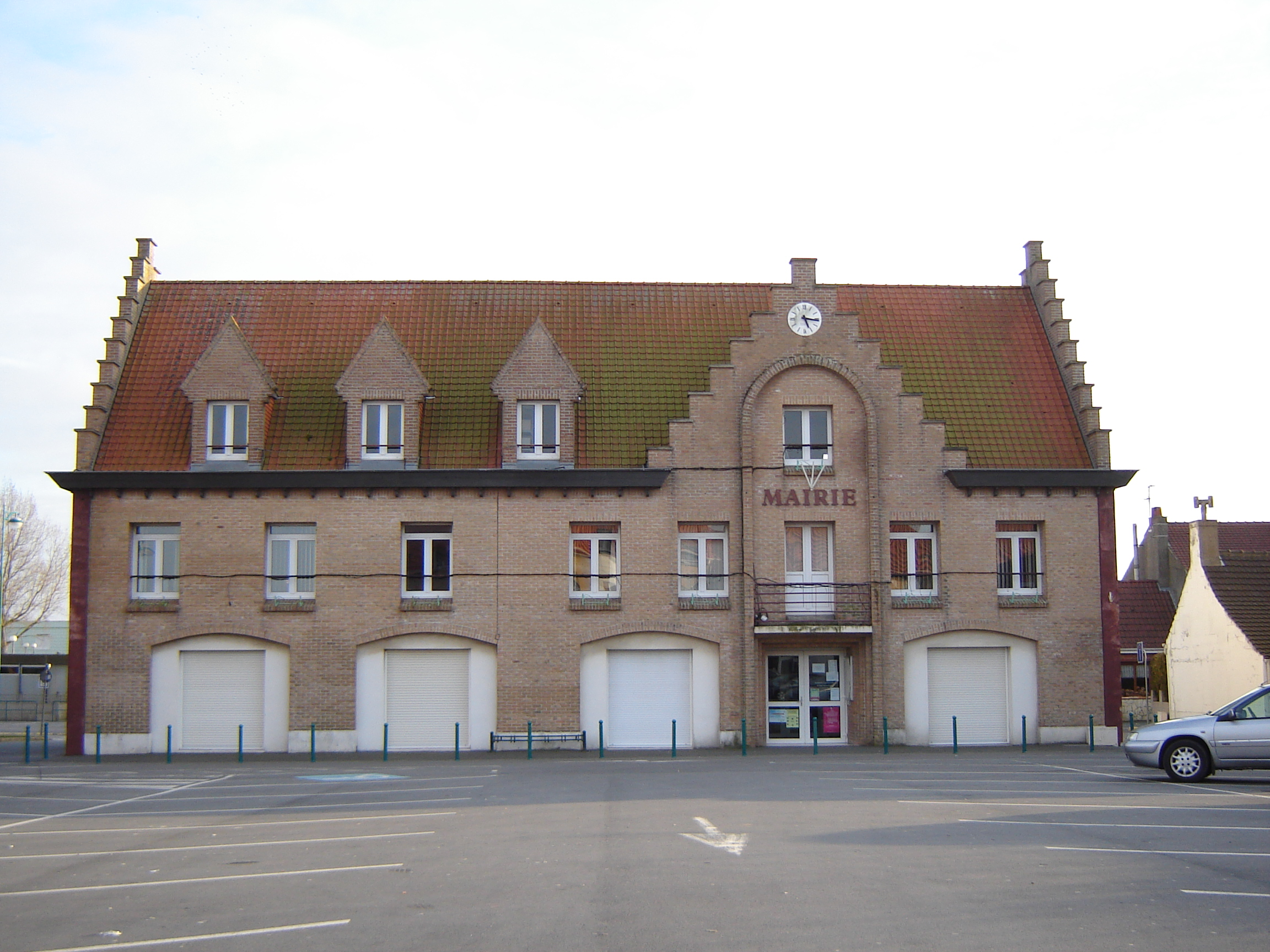 Town hall of Oye-Plage. Oye-Plage, Pas-de-Calais, Nord-Pas-de-Calais, France